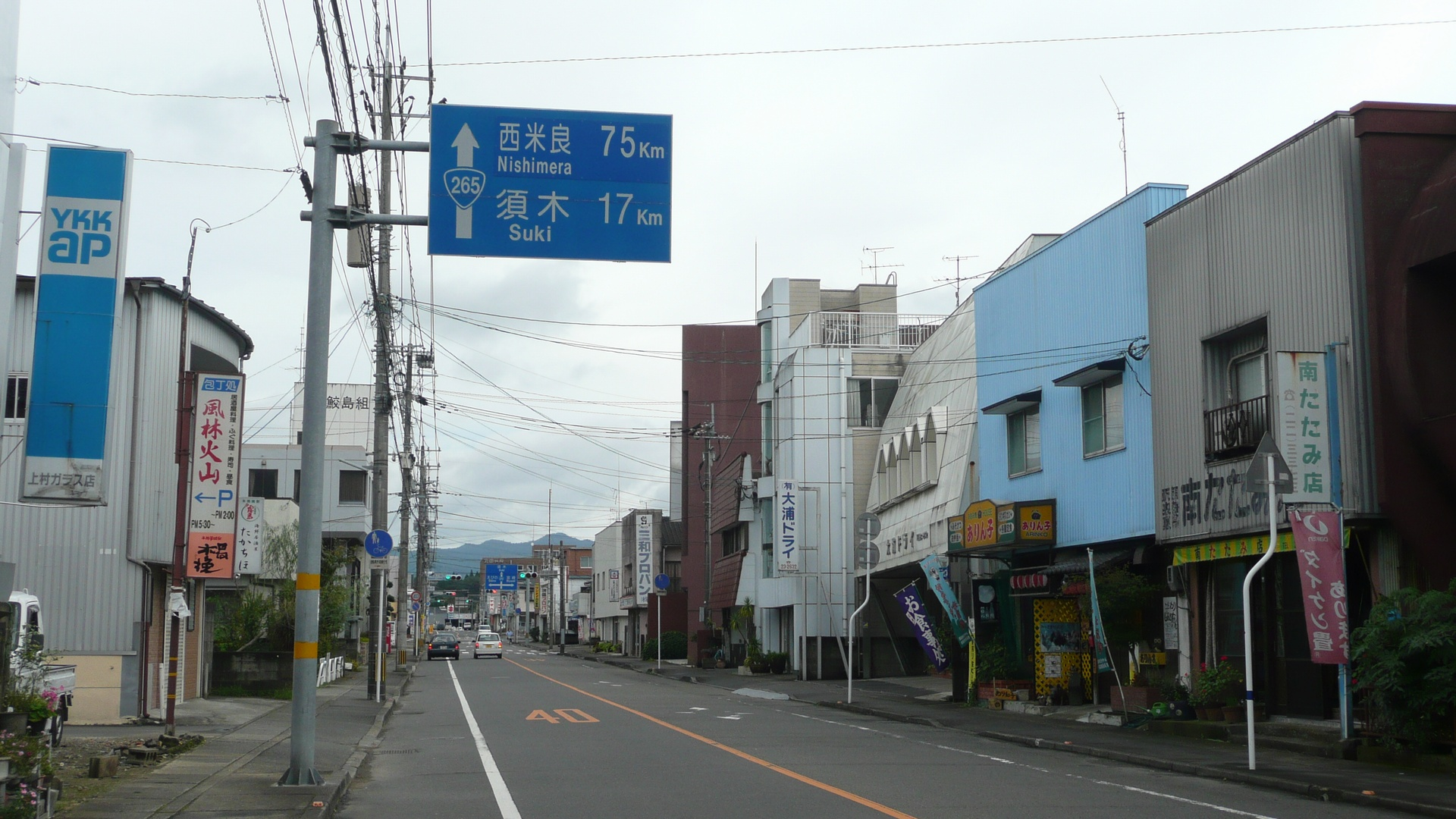 National Route 265 (Honmachi, Kobayashi City, Miyazaki, Japan)